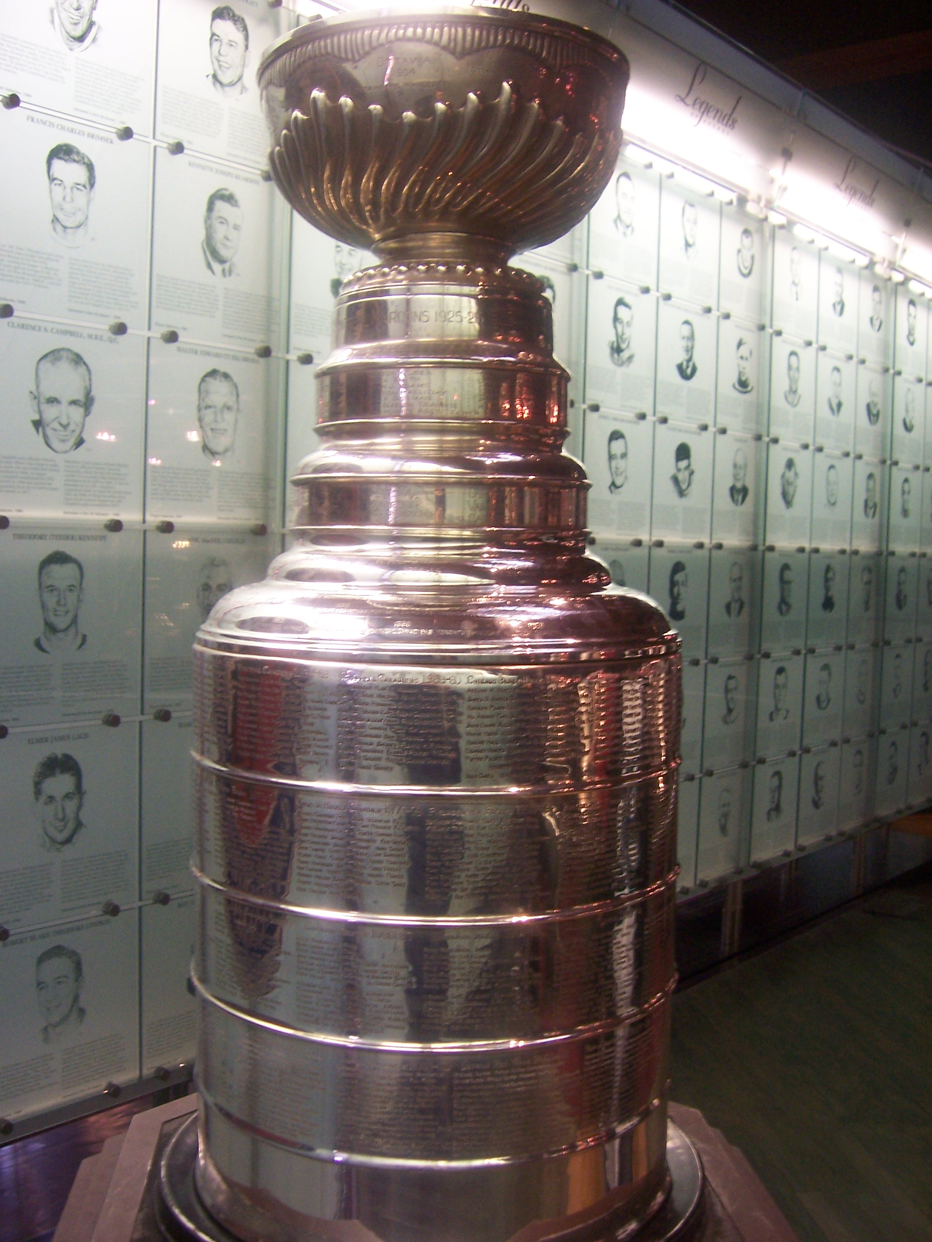 The Stanley Cup.